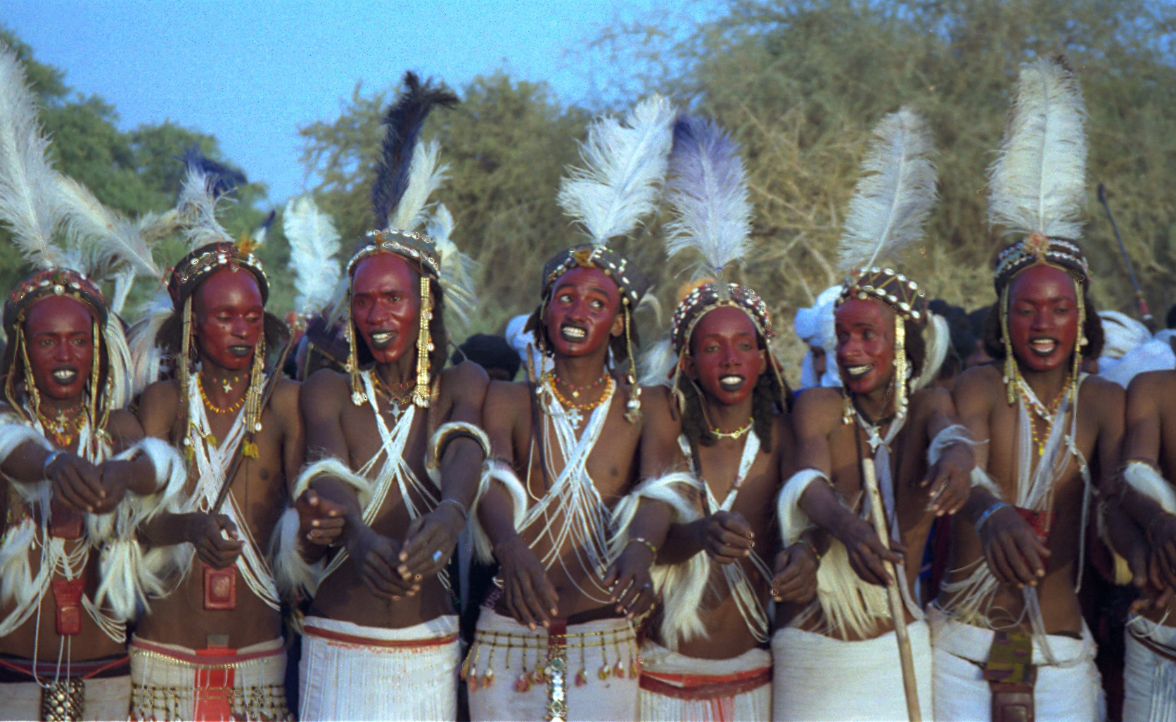 Gerewol contestants of the Wodaabe ethnic group sing and dance while flaunting the whiteness of their eyes and teeth. Photographed 1997 in Niger.